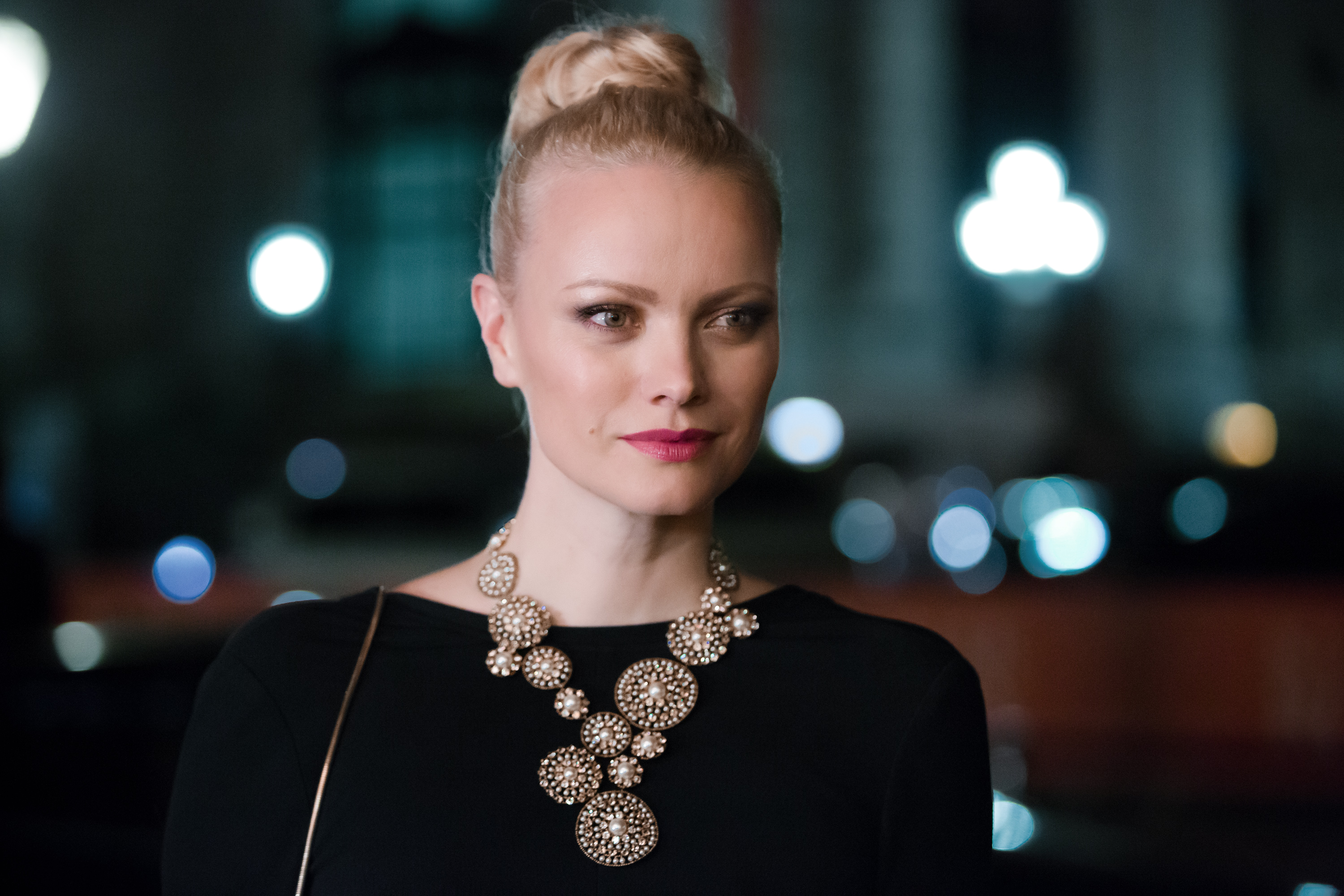 Franziska Knuppe on the red carpet of the Romy TV awards 2016 at Hofburg Palace in Vienna, Austria.